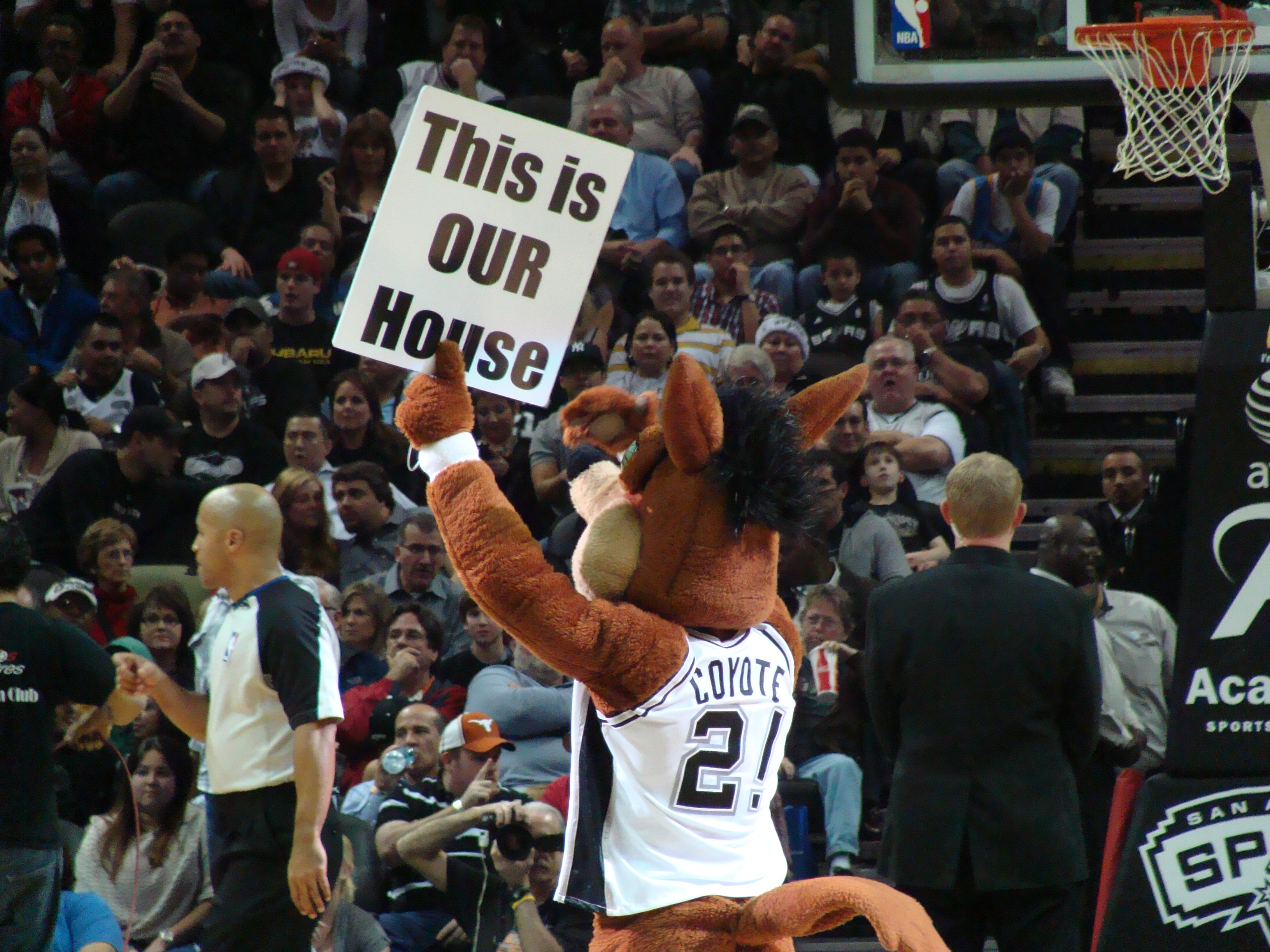 The Spurs Coyote, the mascot of the San Antonio Spurs. Seen during the Nuggets-Spurs homegame on Dec 22, 2010.